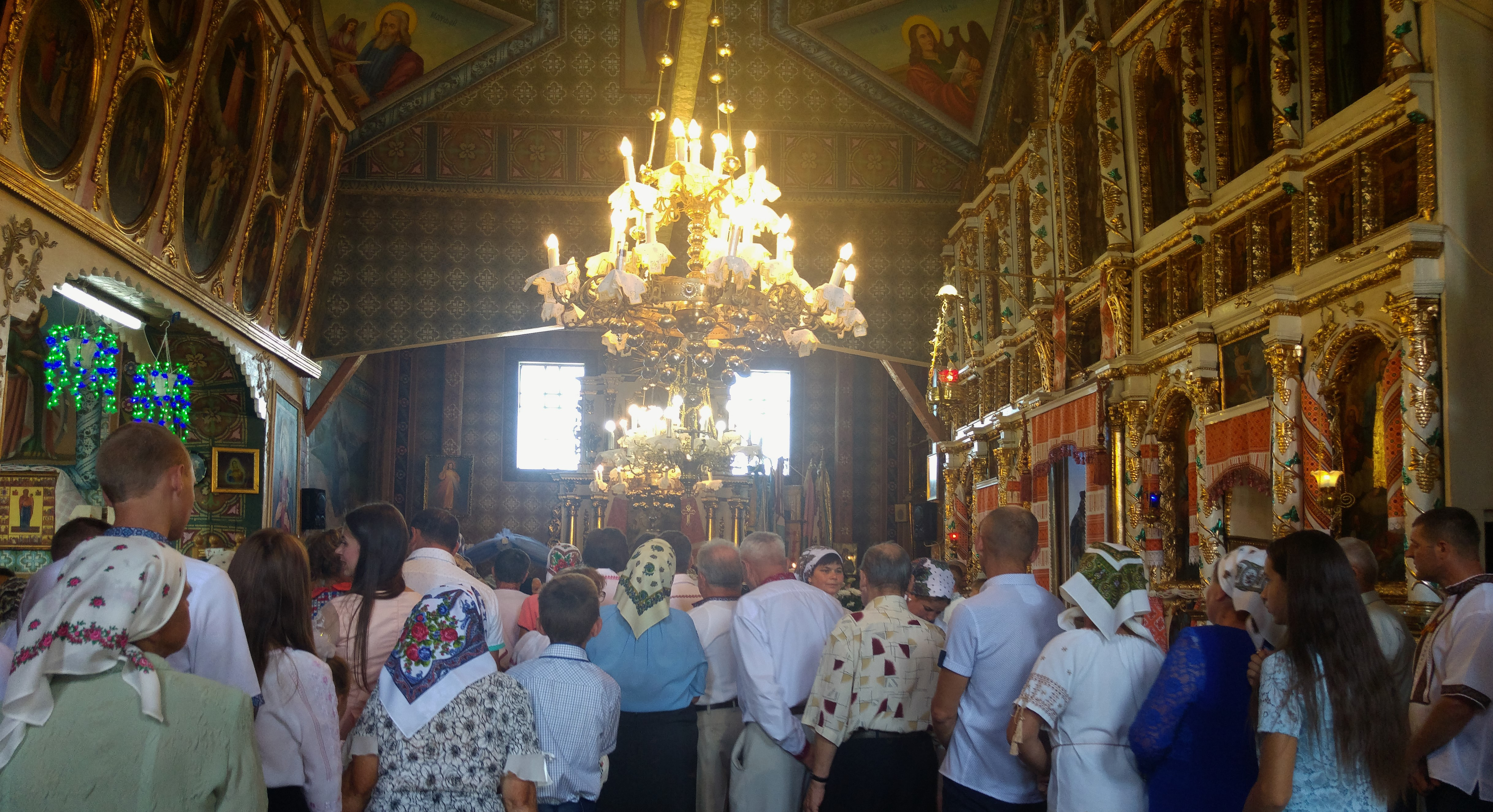 Ukrainian Greek Catholic Church in Spas, Ukraine - during celebration of Spas.